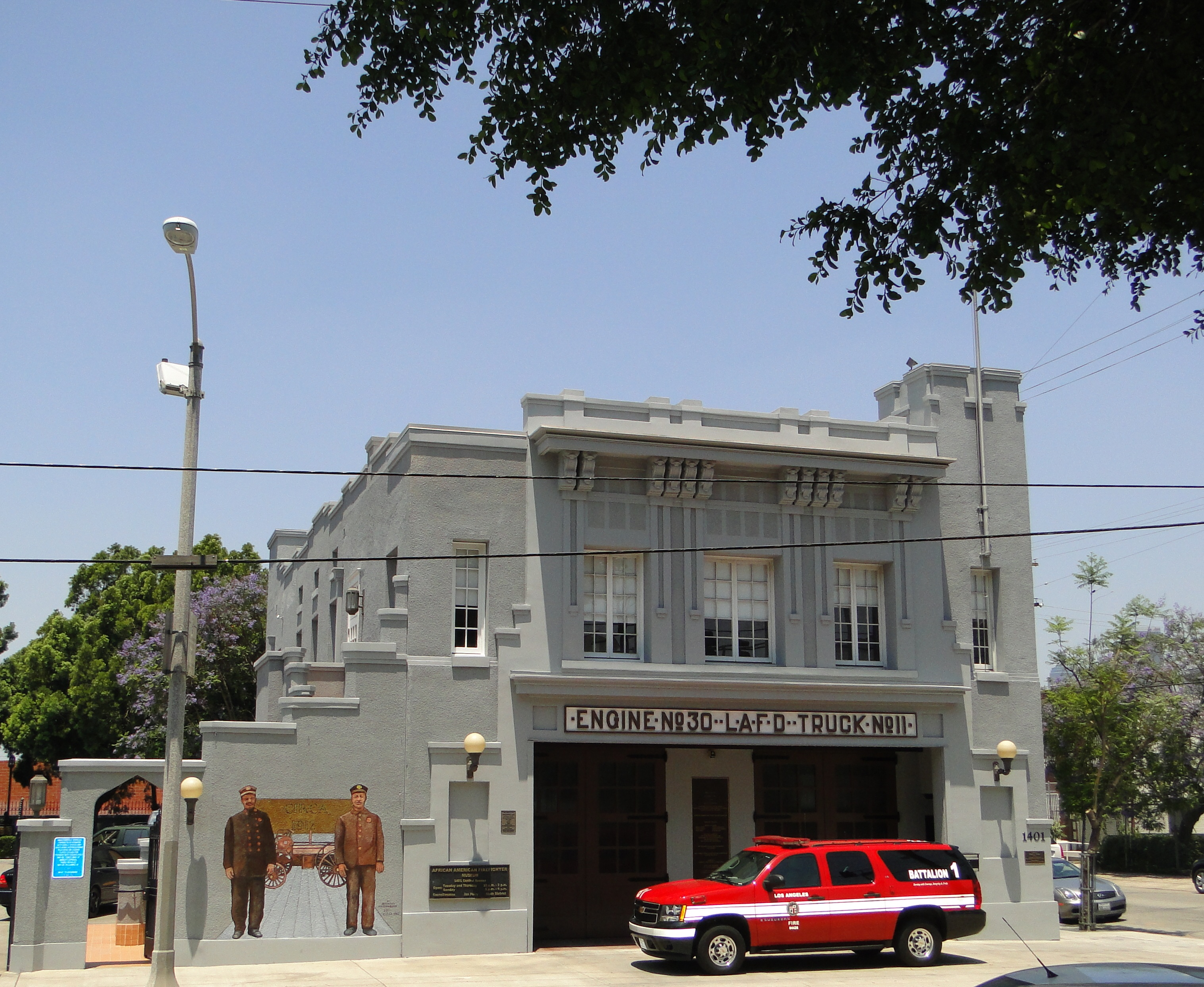 Fire Station No. 30, Engine Company No. 30 — at 1401 South Central Avenue in South Los Angeles, California.